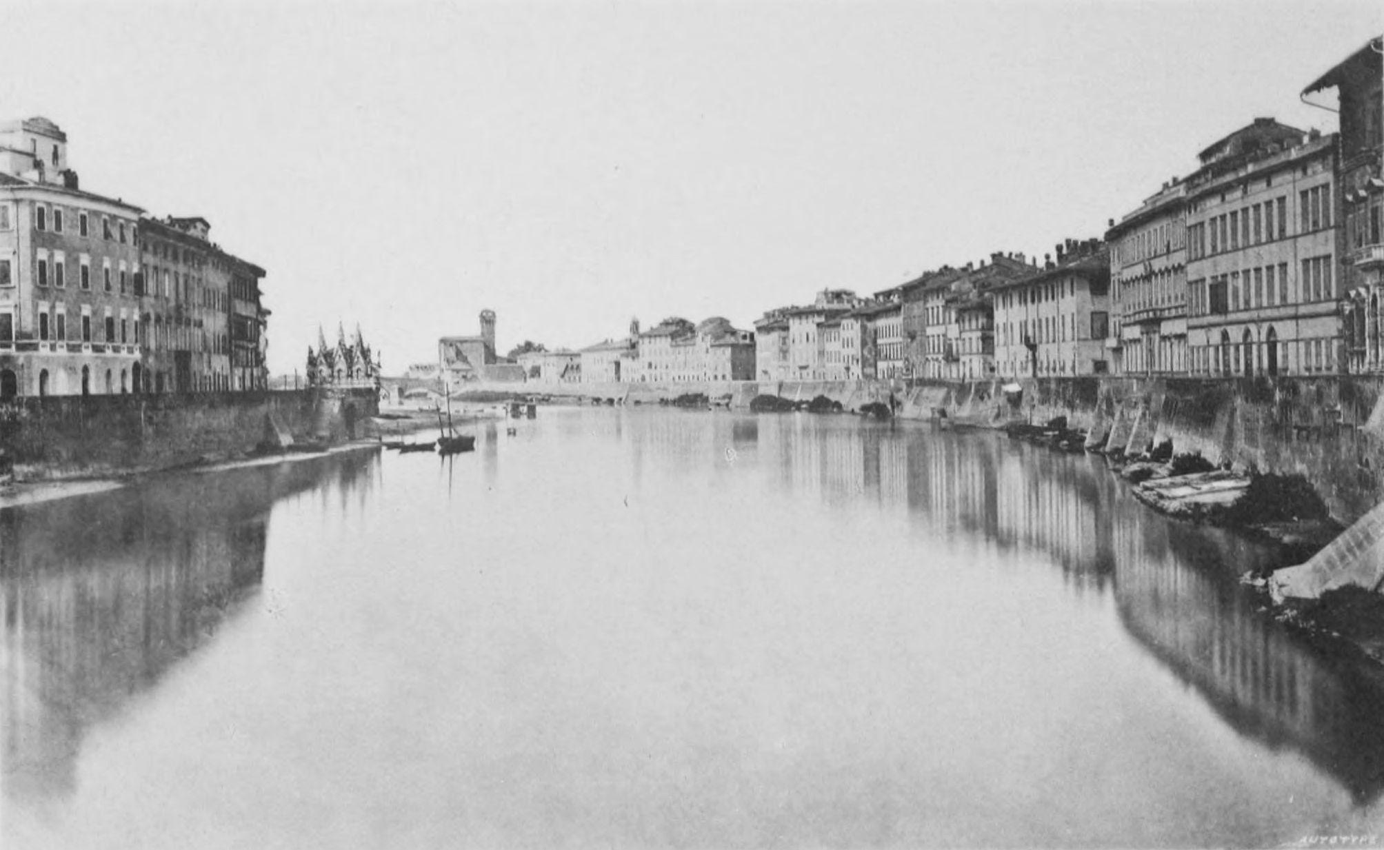 The ancient shores of the arno